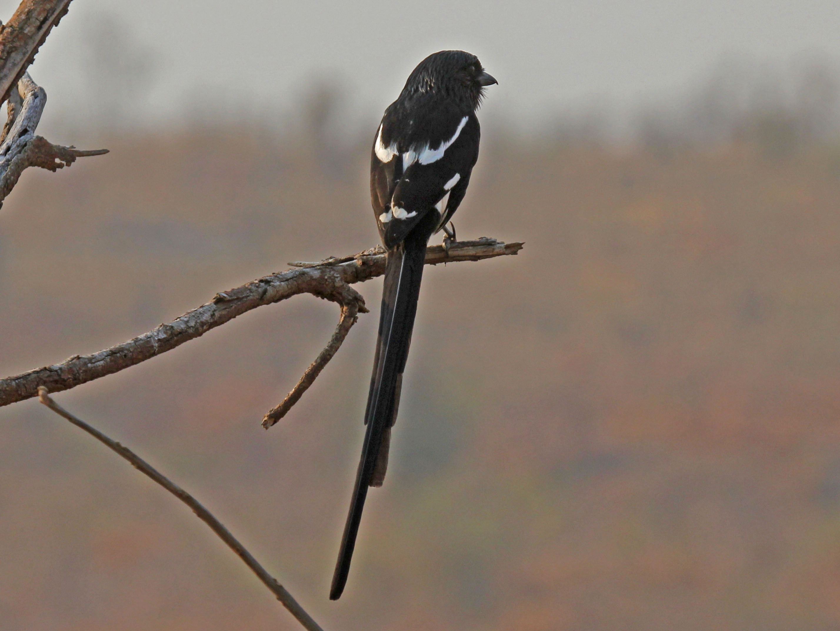 Magpie Shrike (Corvinella melanoleuca) at Kruger National Park, South Africa